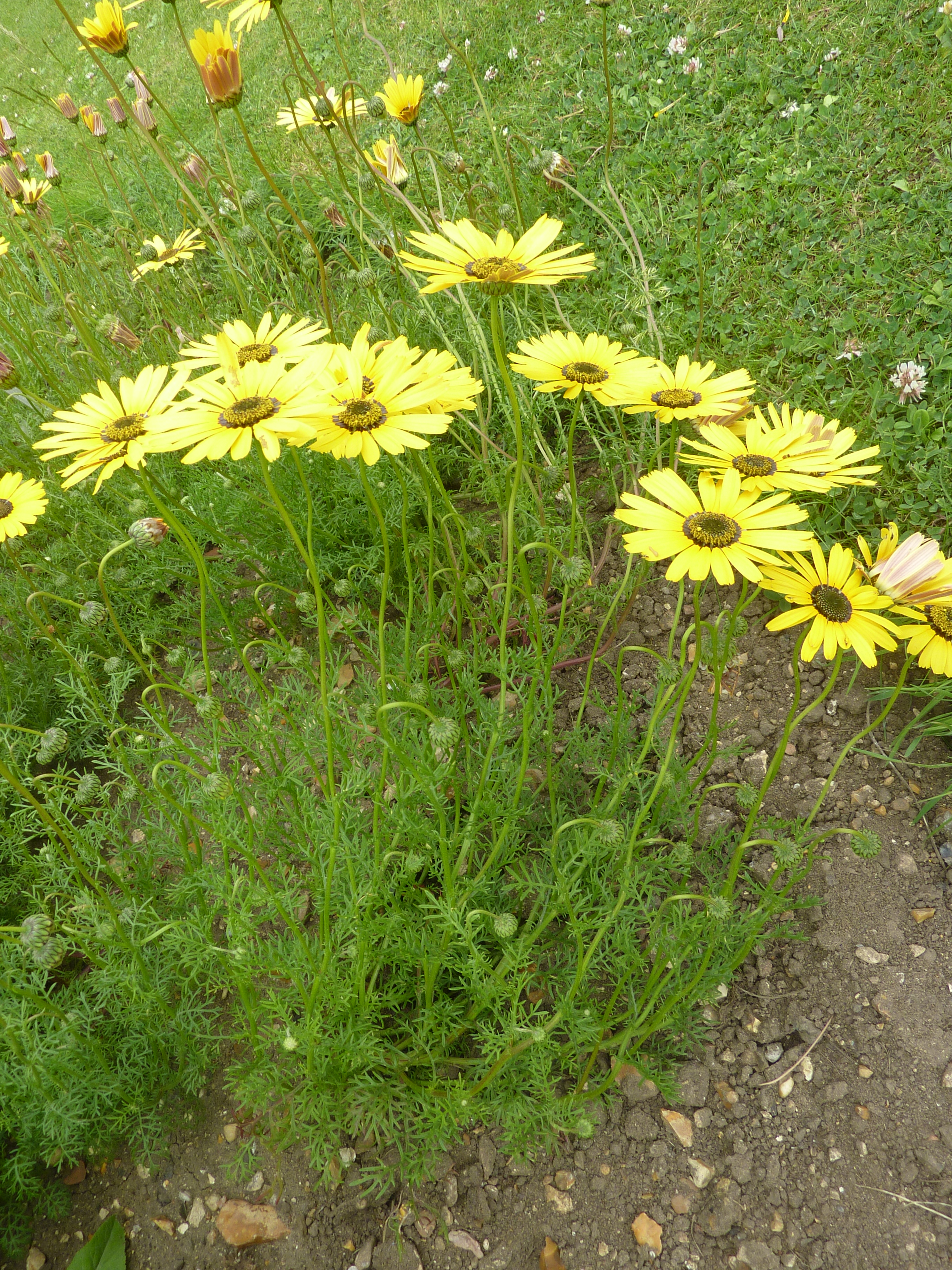 Taken in the Cambridge University Botanic Garden